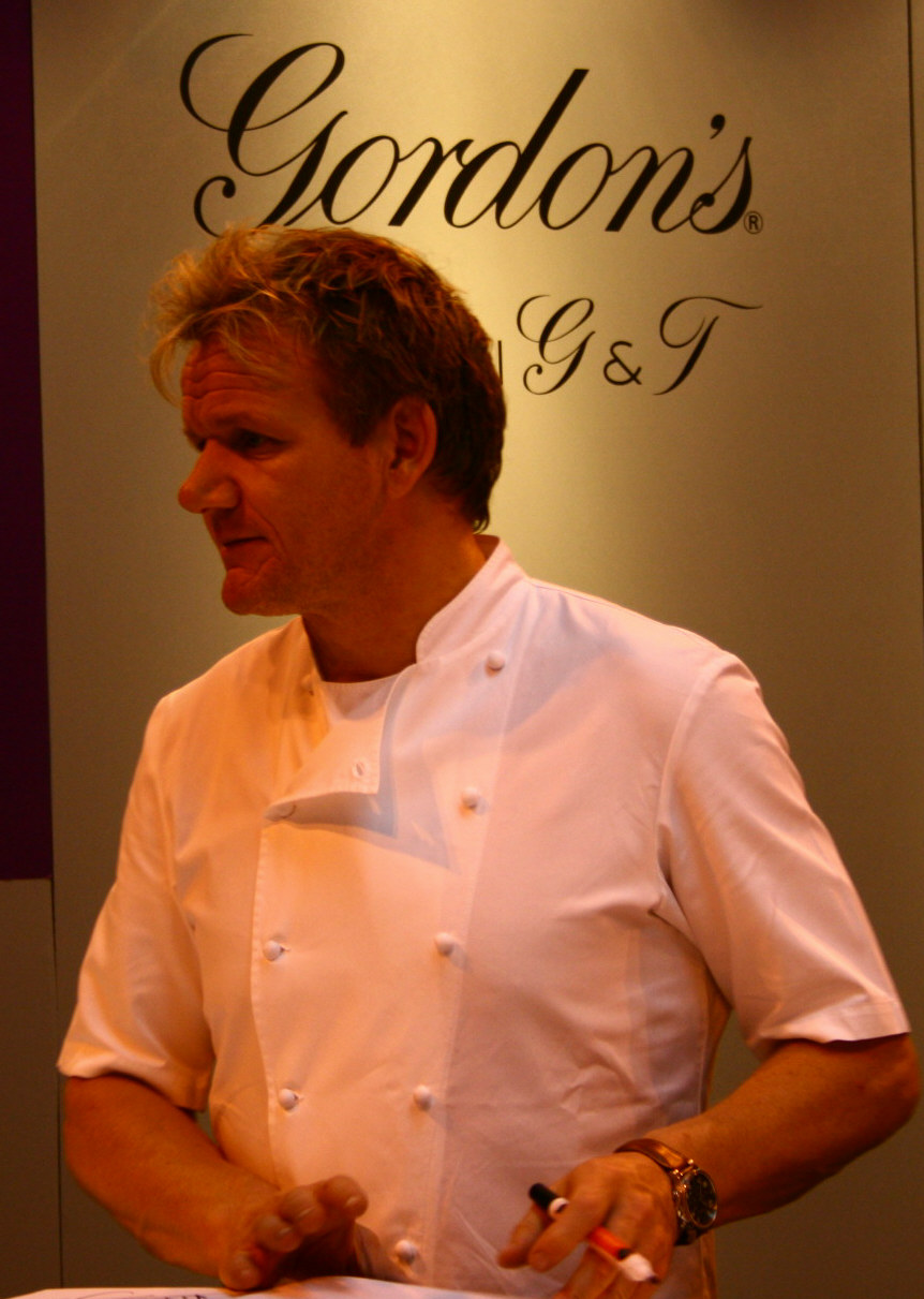 He was very personable and chatty and didn't use the "f" word once!